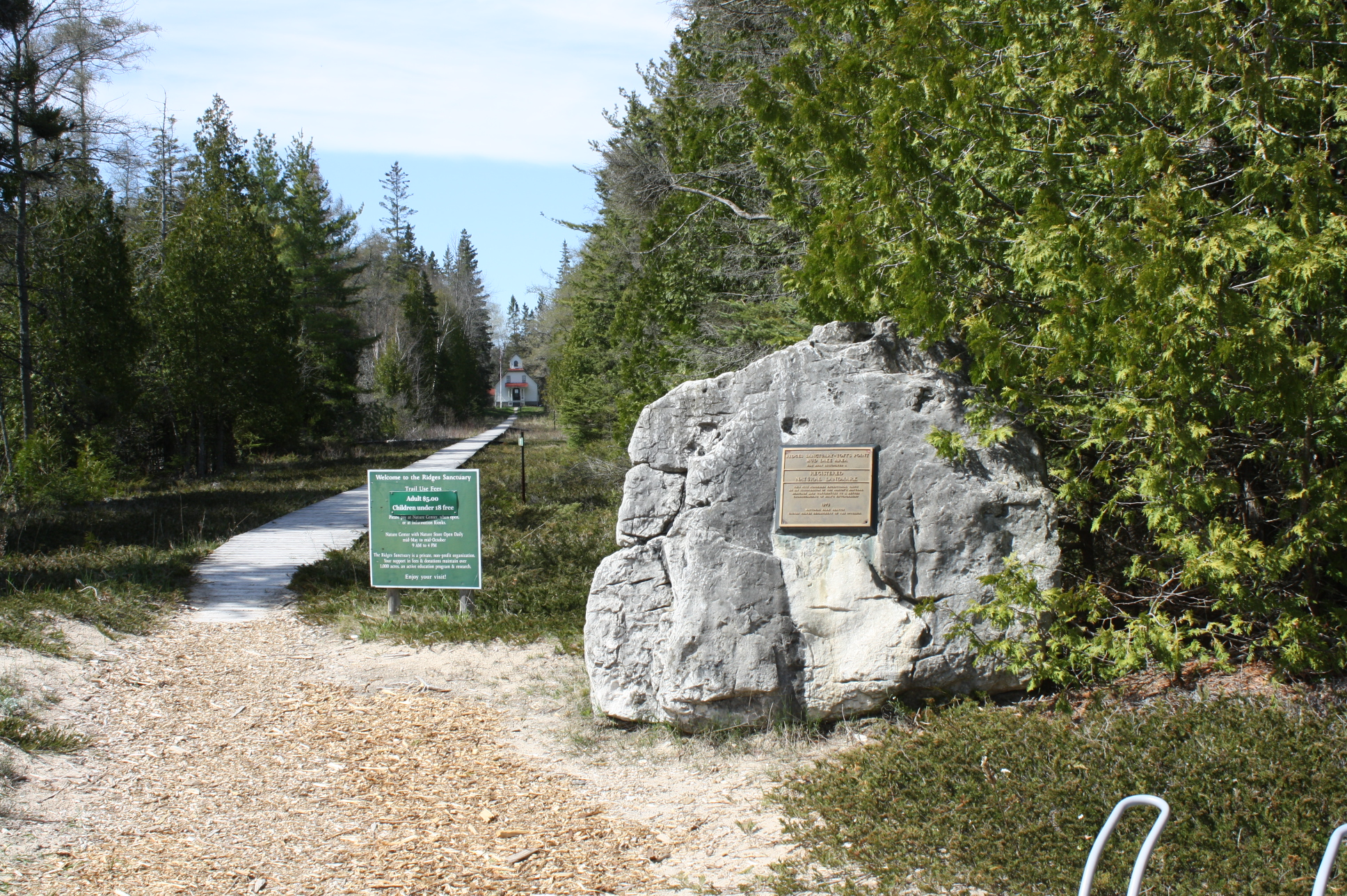 A sign for the Ridges Sanctuary near Baileys Harbor. It is listed on the National Natural Landmarks.